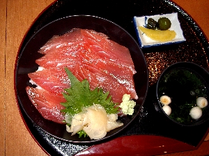 Tekkadon